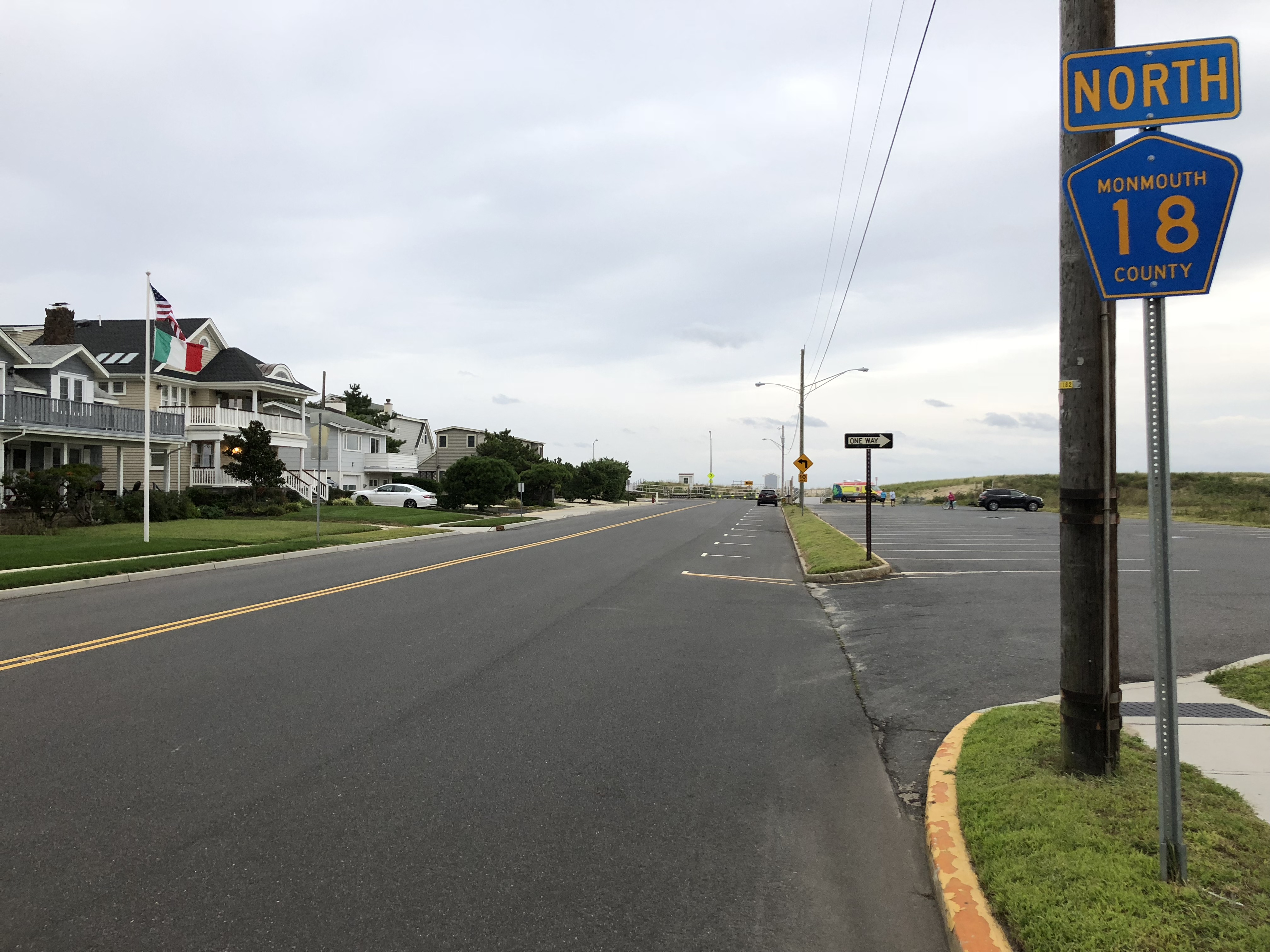 View north along Monmouth County Route 18 (Brown Avenue) at Monmouth County Route 49 (1st Avenue) in Spring Lake, Monmouth County, New Jersey